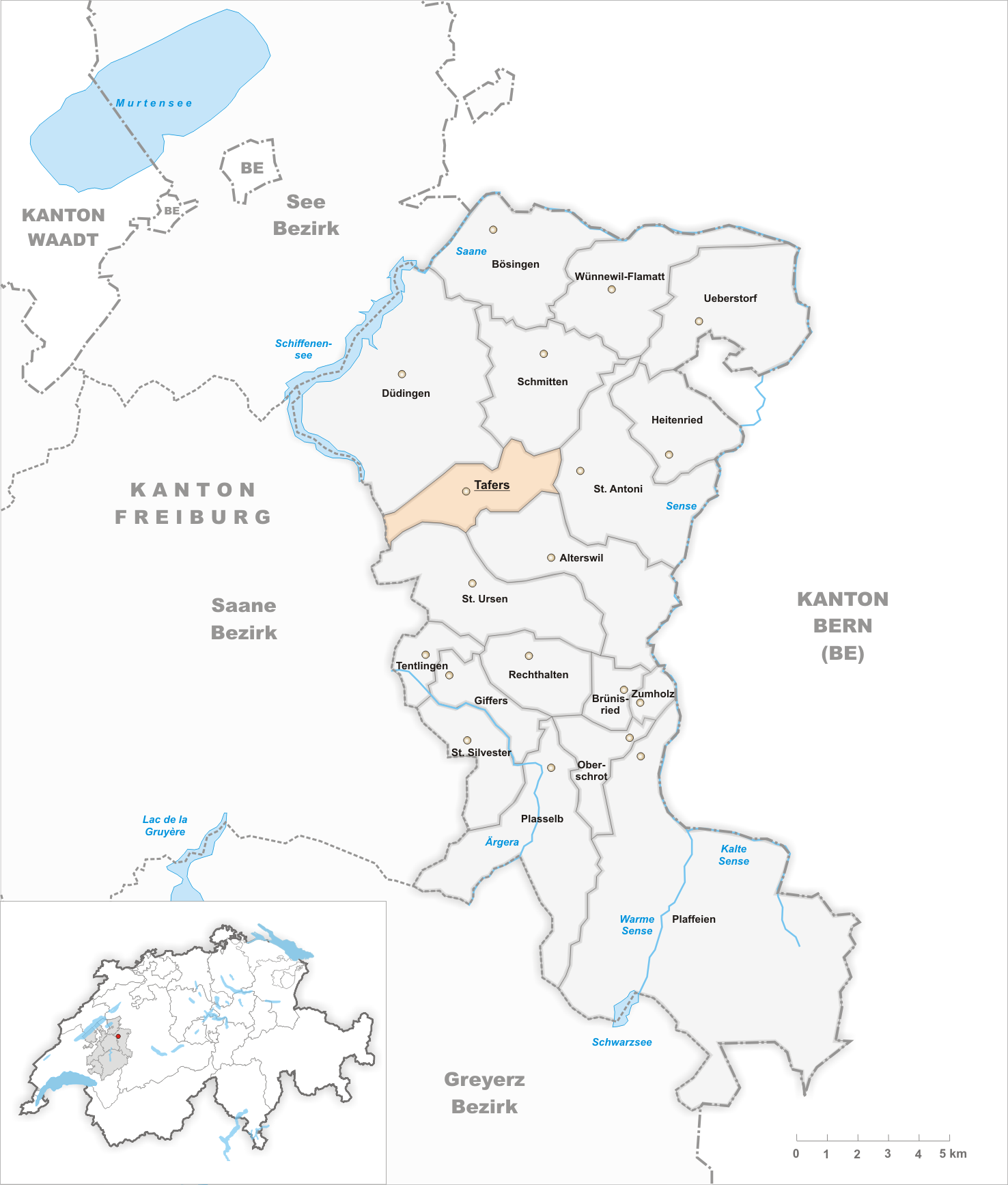 Municipality Tafers